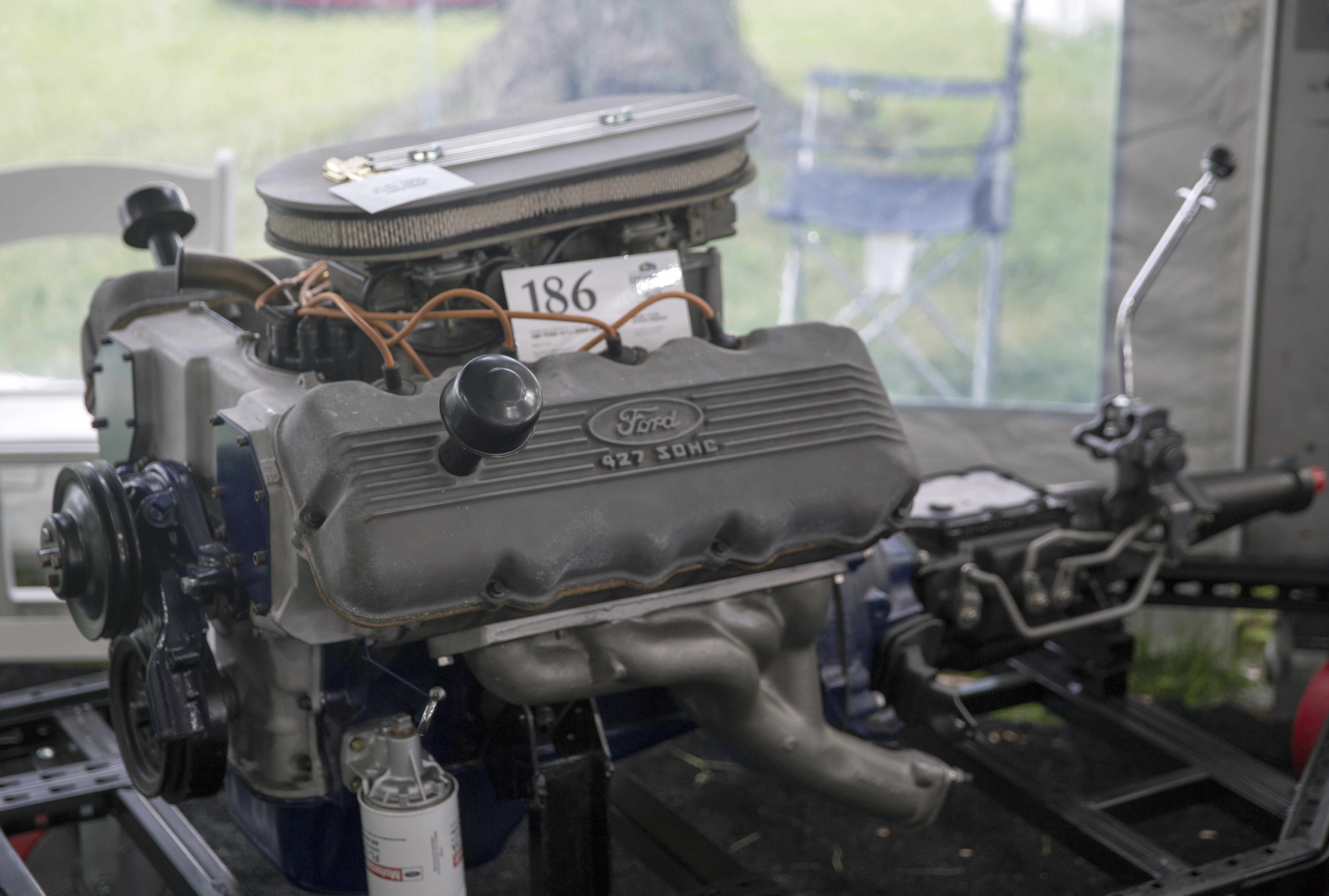 A 427 "Cammer" SOHC V8 engine (engine no. 003) coupled to a Ford "Top-Loader" four-speed manual transmission. At the Bonhams Auction attached to the 2019 Greenwich Concours d'Elegance, where it sold for $32,575. Possibly built on 1 December 1966, but lots of mystery around this absolute unit.